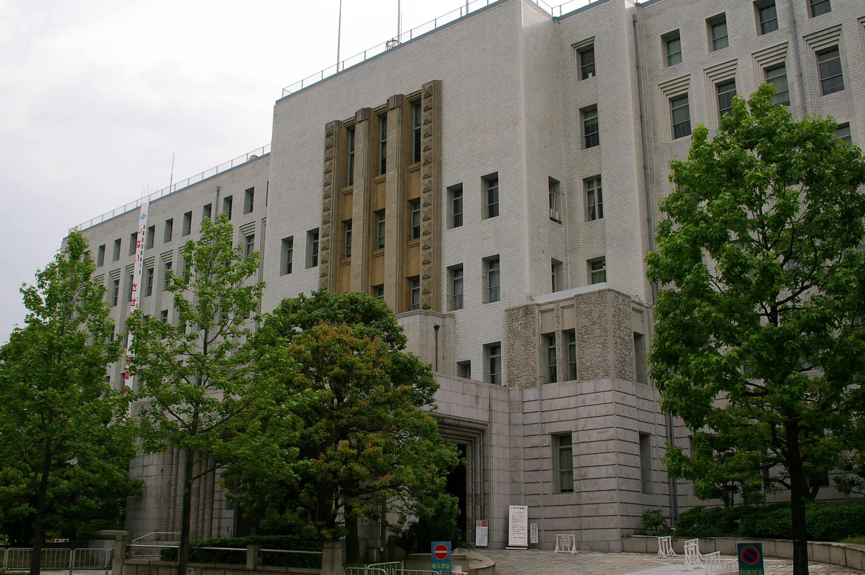 Photograph of Osaka Prefectural Government Main Building in Chuo-ku, Osaka, Osaka Prefecture, Japan.